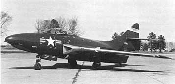 A U.S. Navy Grumman F9F-7 Cougar used for tests by the National Advisory Committee for Aeronautics (NACA).